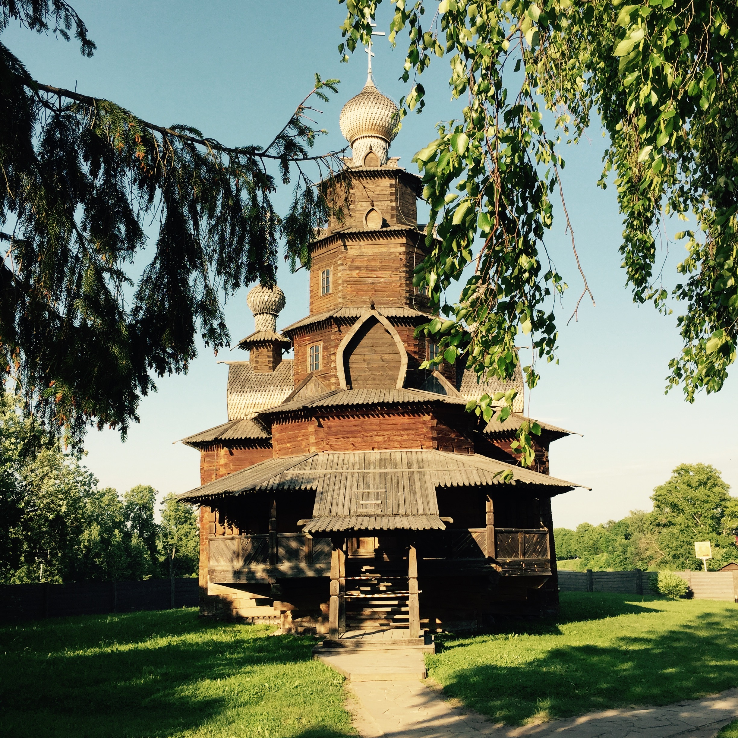 Churches in Suzdal